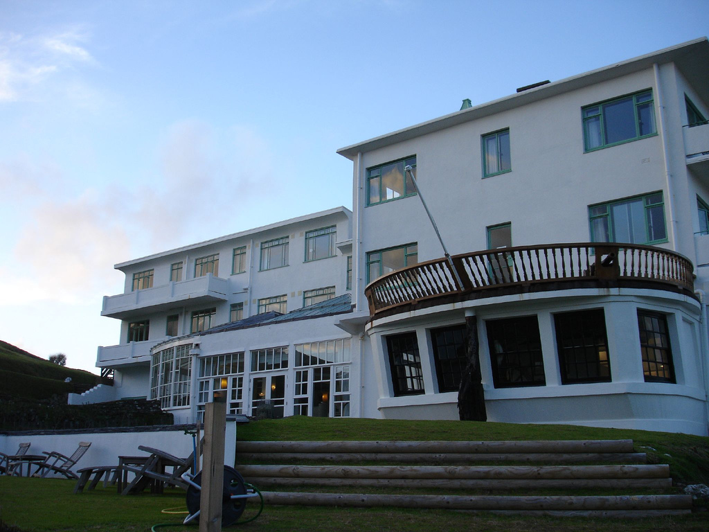 Back view of the Burgh Island Hotel with Ganges Room on Burgh Island, Devon, England